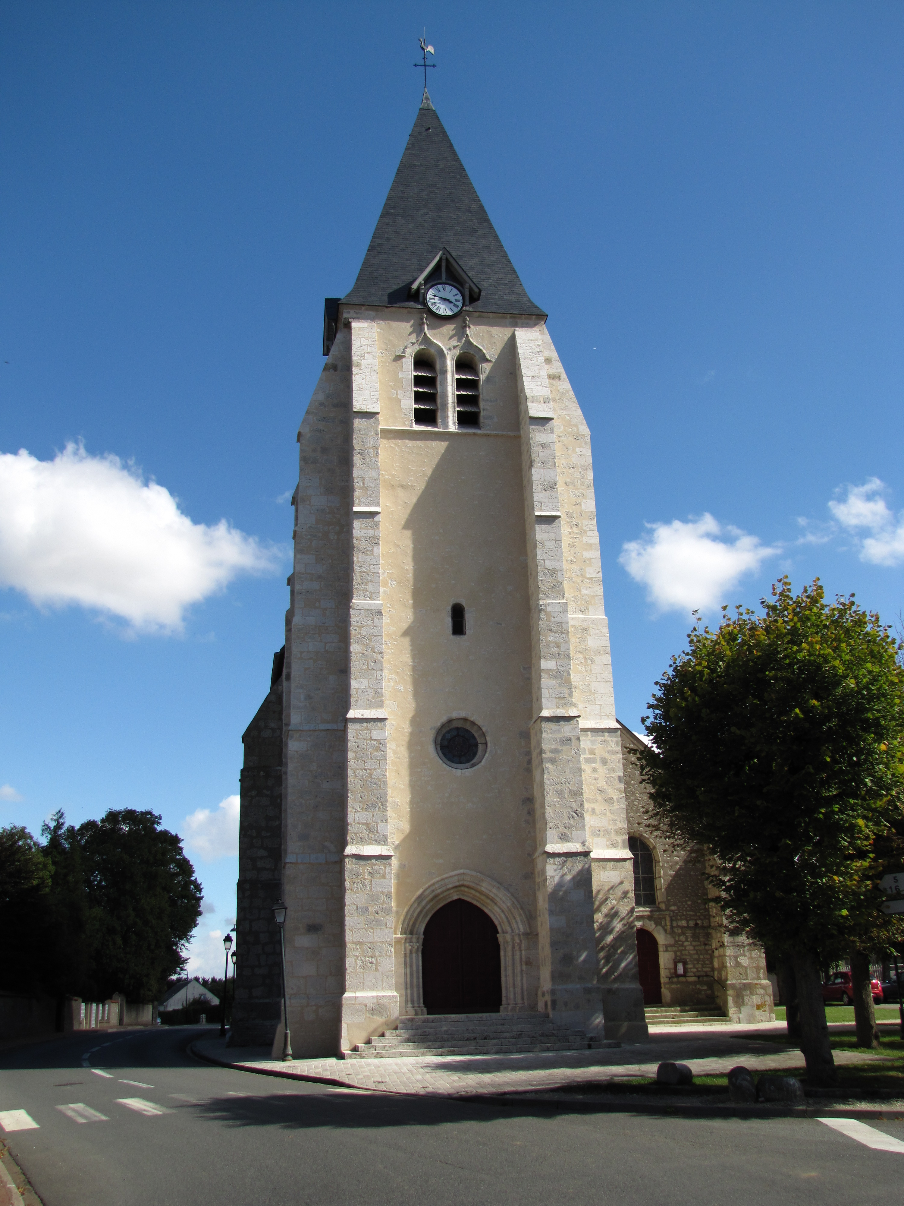 Bazoches-les-Gallerandes Church